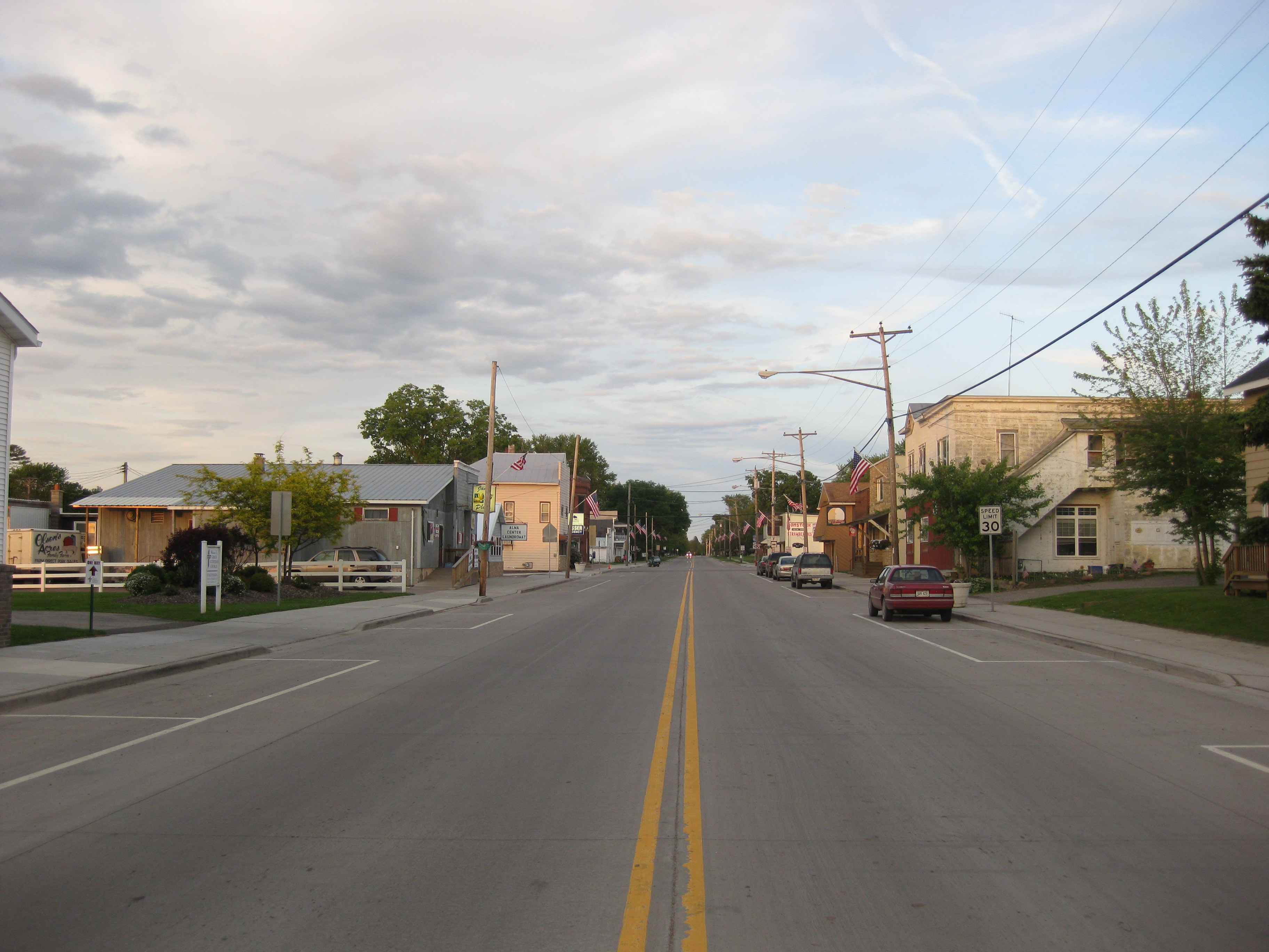 Picture taken by me.